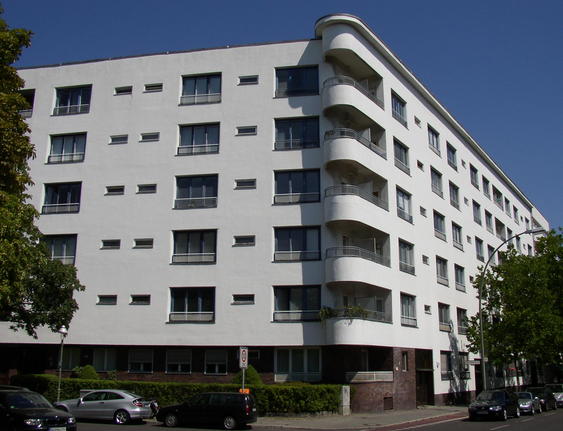 Building by Hans Scharoun in Berlin-Wilmersdorf, Germany